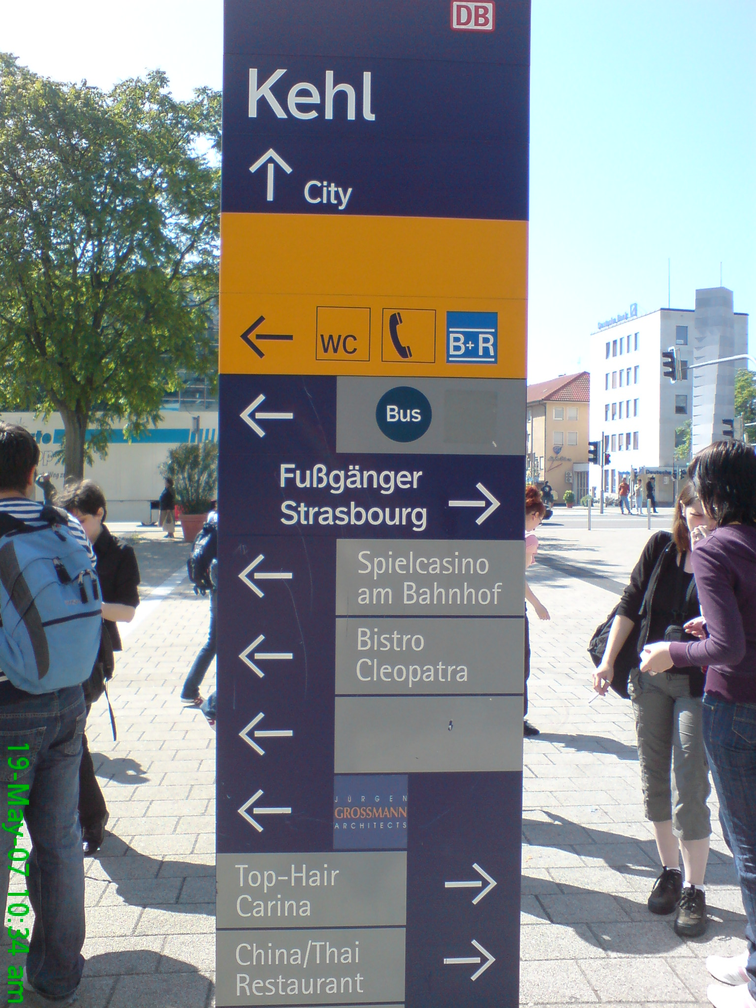 Direction board outside the train station of Kehl, Germany.